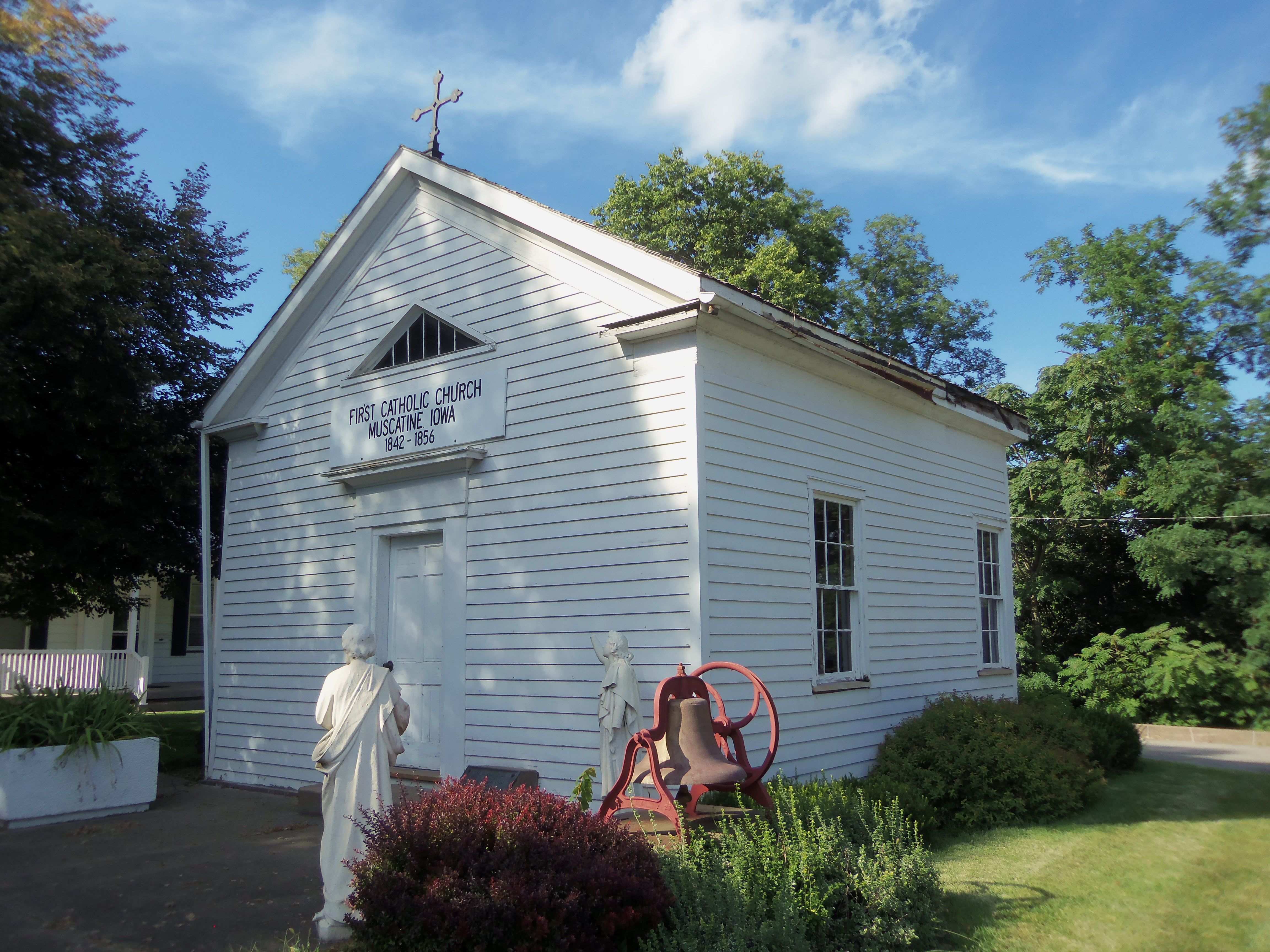 The original Saint Mathias Catholic Church in Muscatine, Iowa. It was originally built on Cedar Street and it was used as a church until 1956. It was moved to its present location on the parish grounds in 1934.